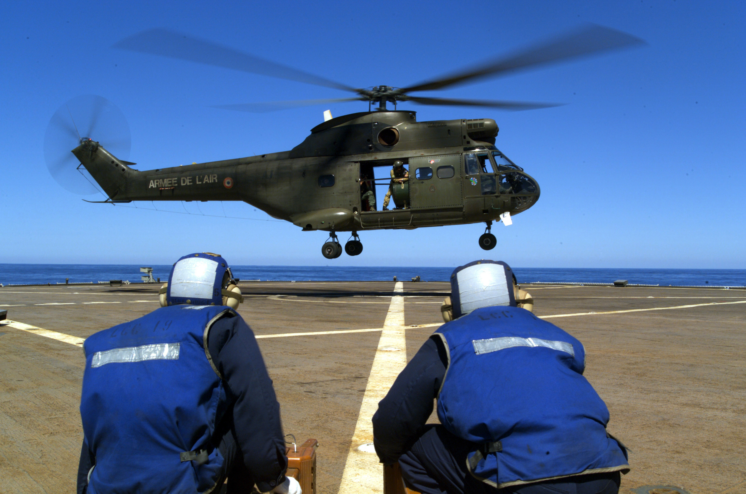 USS BLUE RIDGE AT SEA -- A French Army H-3 Puma lands on the flight deck of the 7th Fleet command ship USS Blue Ridge (LCC 19) March 29 during an interoperability training session designed to test joint forces landing compatibility while at sea. Blue Ridge and the 7th Fleeet staff visited Noumea, New Caledonia March 27-29. While there, 7th Fleet commander Vice Adm. James Metzger and the 7th Fleet staff conducted a series of meetings with New Caledonian French Armed Forces leadership to discuss issues of common concern and to identify cross-training opportunities.